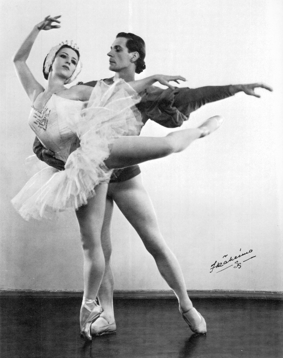 Photograph of the Finnish dancers Elsa Sylvestersson (1924–1996) and Klaus Salin (1919–1973) in roles for the Swan Lake by P. I. Tchaikovsky.